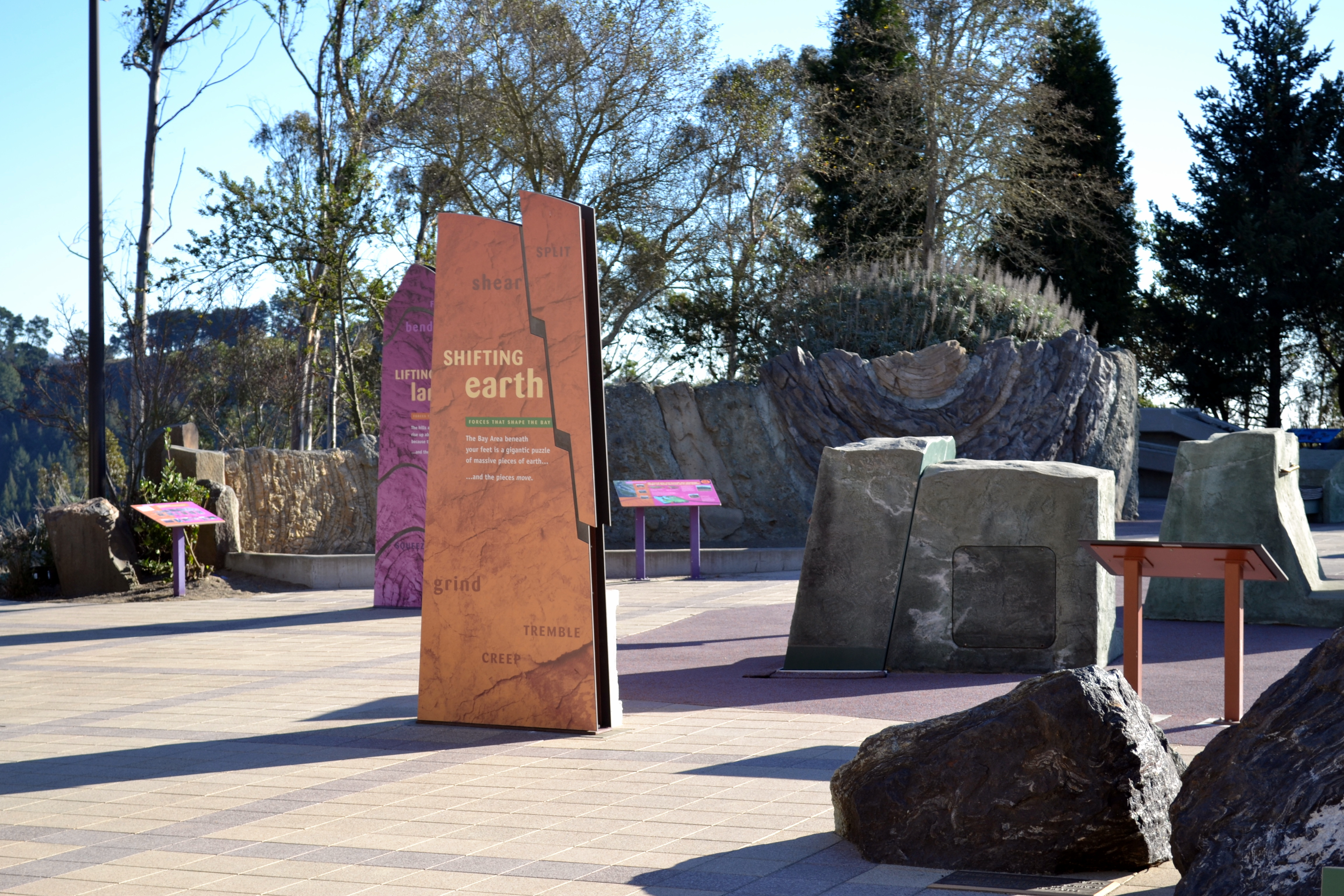 Shifting Earth exhibit at Lawrence Hall of Science